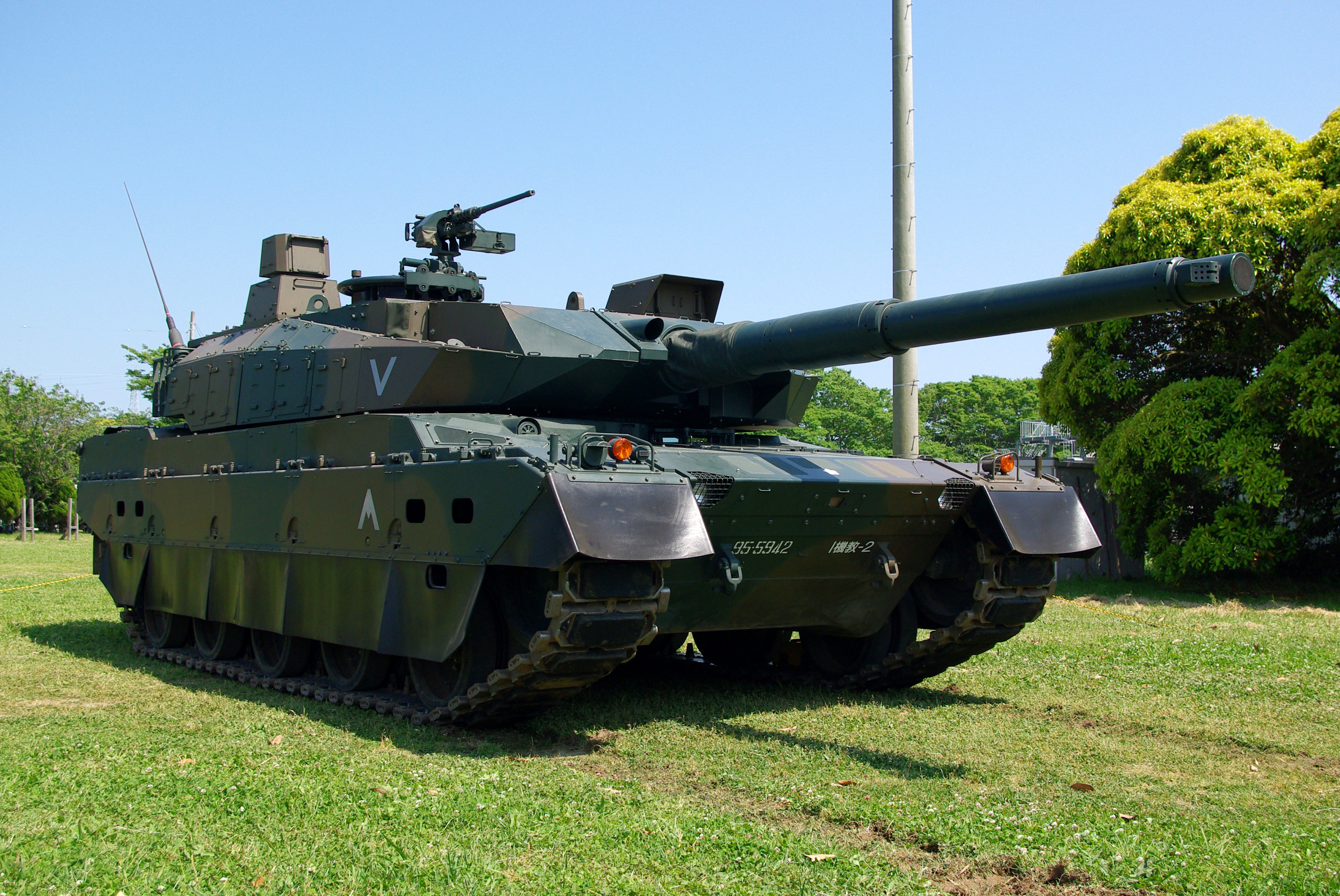 JGSDF Type10 Tank (production model),1st Armored Training Unit/Eastern Army Combined Brigade.Taken by Los688,in Camp Takeyama,Japan,at 27-May-2012.PD-self ja:10式戦車（量産型）2012年05月27日、東部方面混成団第1機甲教育隊 武山駐屯地で撮影。